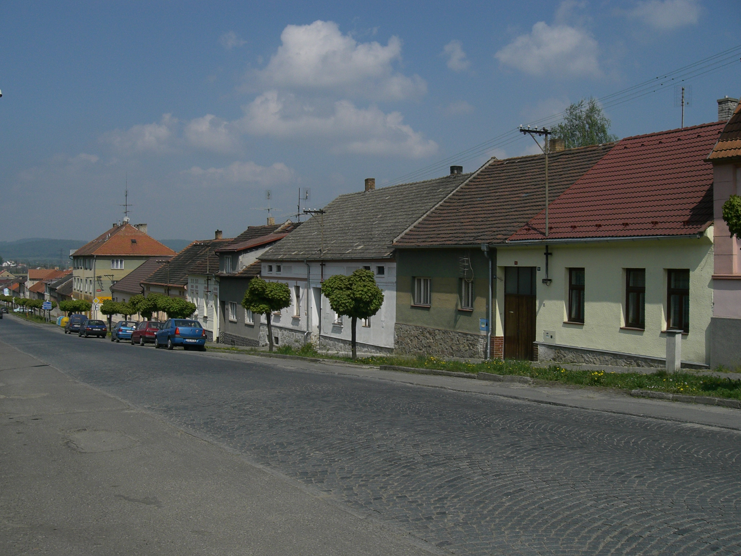 Protivín town in Písek district, Czech Republic. Jiráskova street.